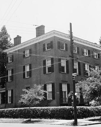 Slover House, East Front & Johnson Streets, New Bern (Craven County, North Carolina) - cropped